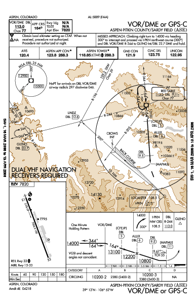 VOR/DME diagram for Aspen-Pitkin County Airport (KASE).